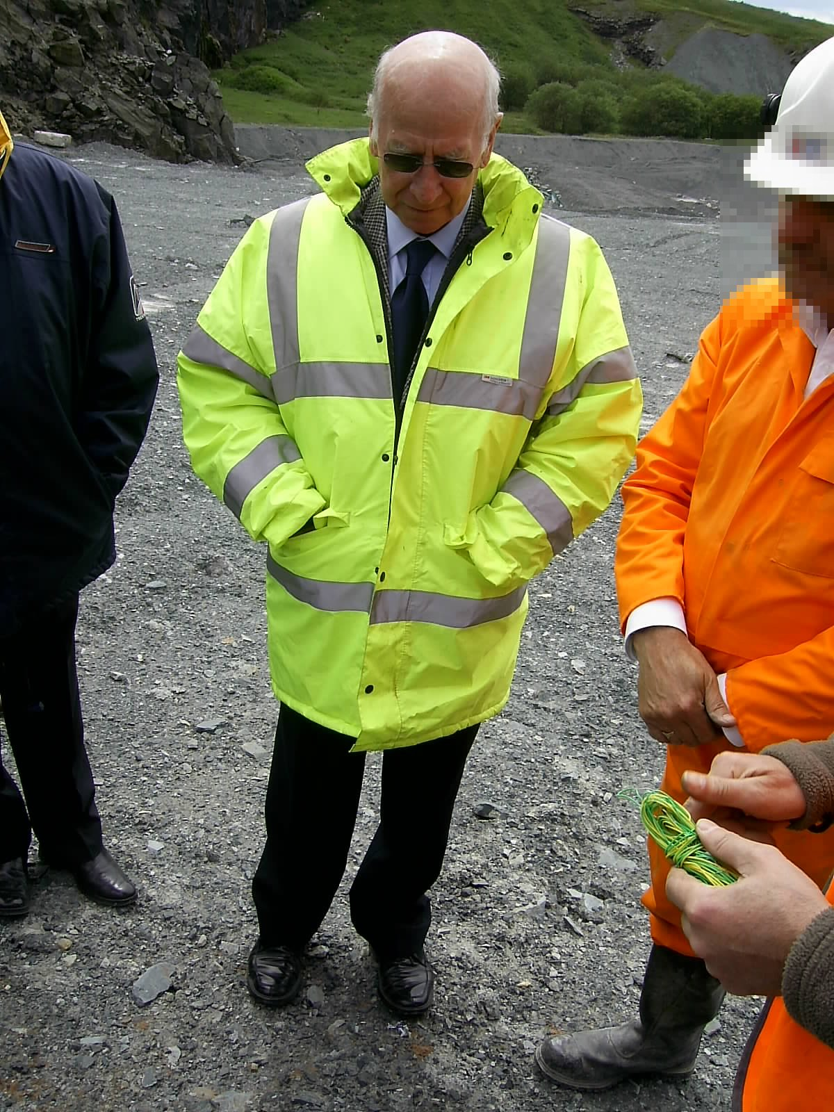 Sir Bobby Charlton at an explosives demonstration for his project "There Must Be a Better Way" to find a new method of clearing antipersonnel landmines.